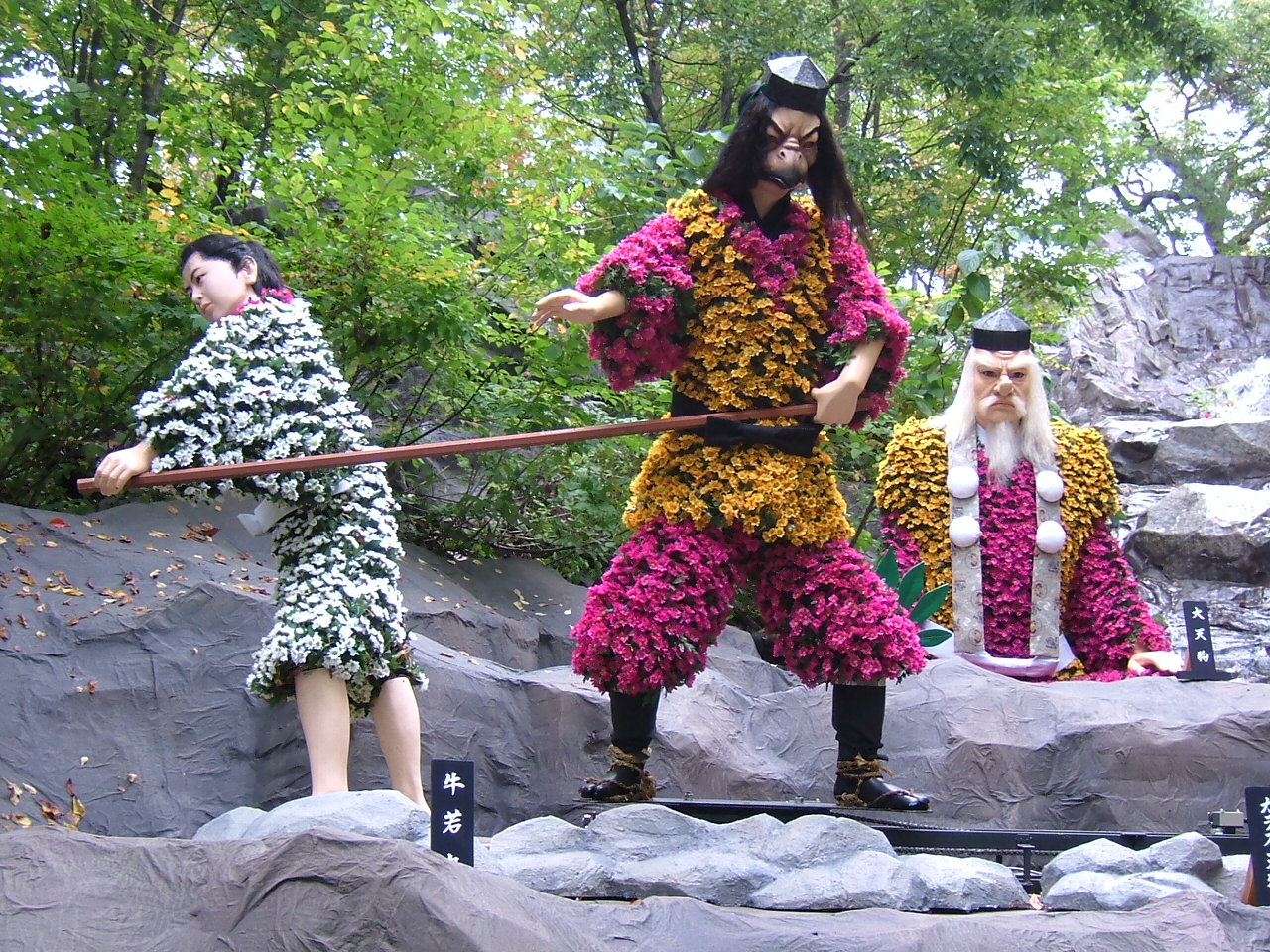 This is a photo taken at the chrysanthemum festival in Miyauchi, Nanyo City, Yamagata Prefecture, Japan in October 2005. It shows a number of human dolls decorated with locally grown chrysanthemums.